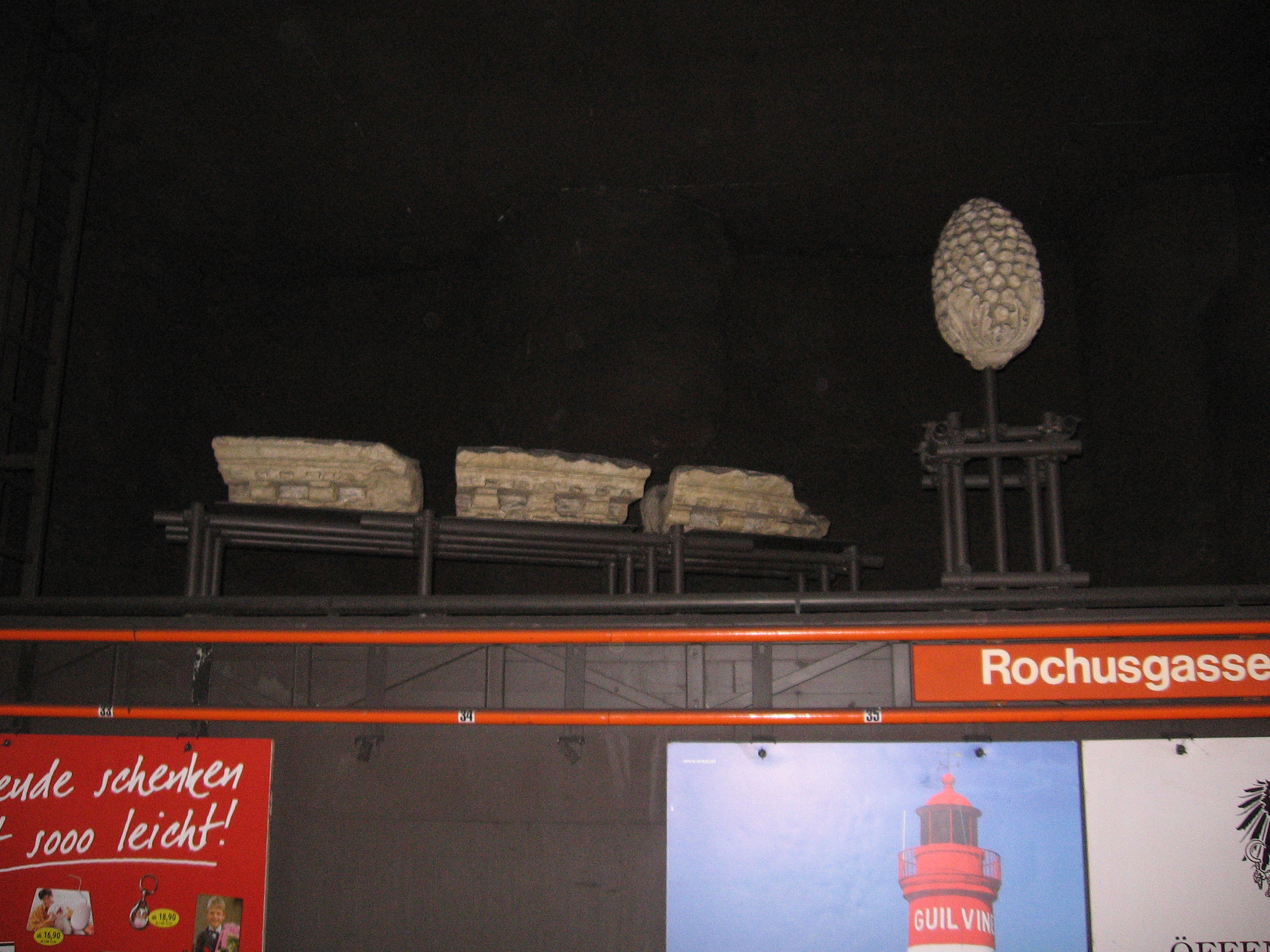 Roman ruins on display in the Rochusgasse U-Bahn station of Vienna, Austria